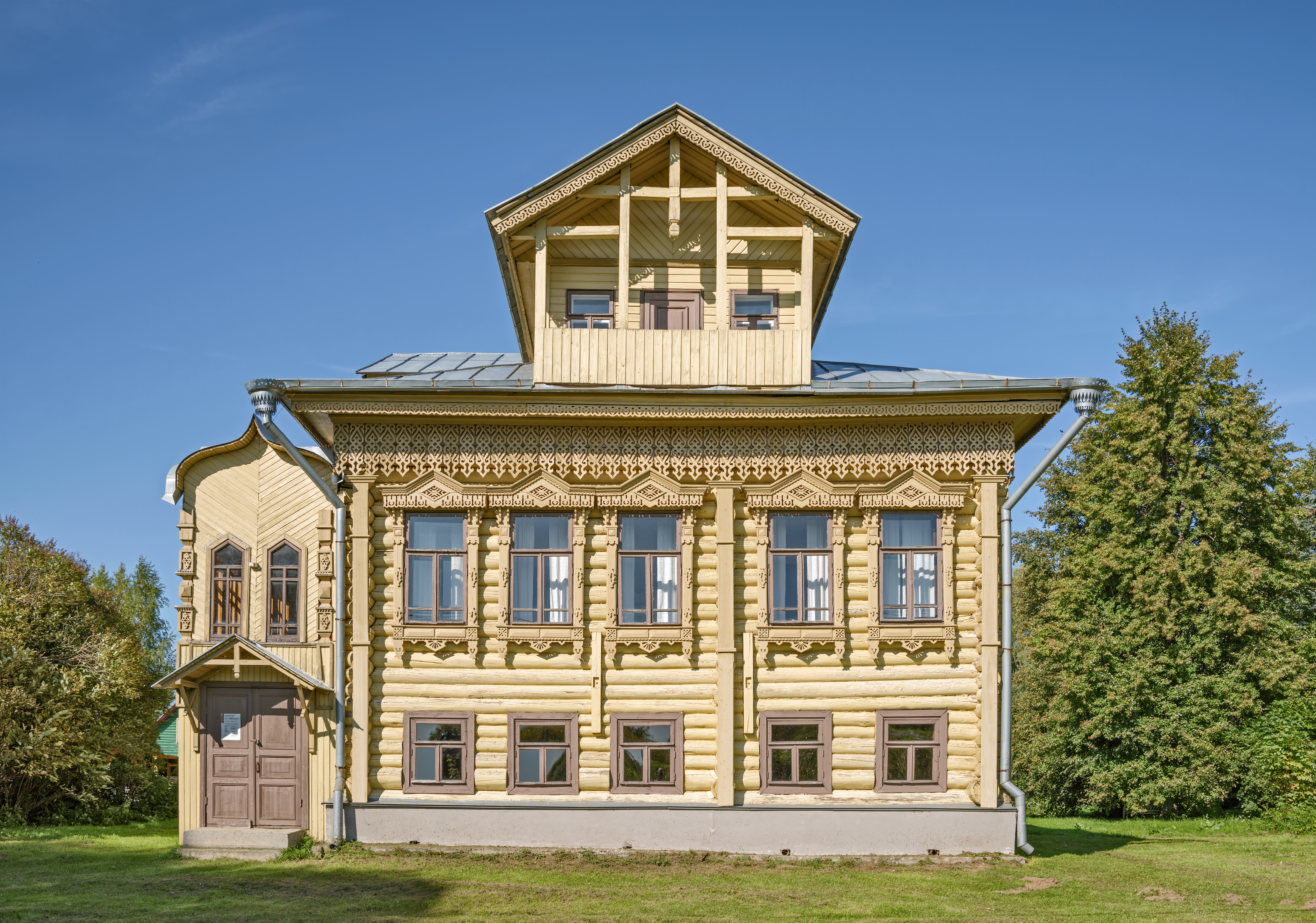 Memorial house and a museum of the Russian sculptor A. M. Opekushin in Rybnitzy village. Yaroslavl Region, Russian Federation.